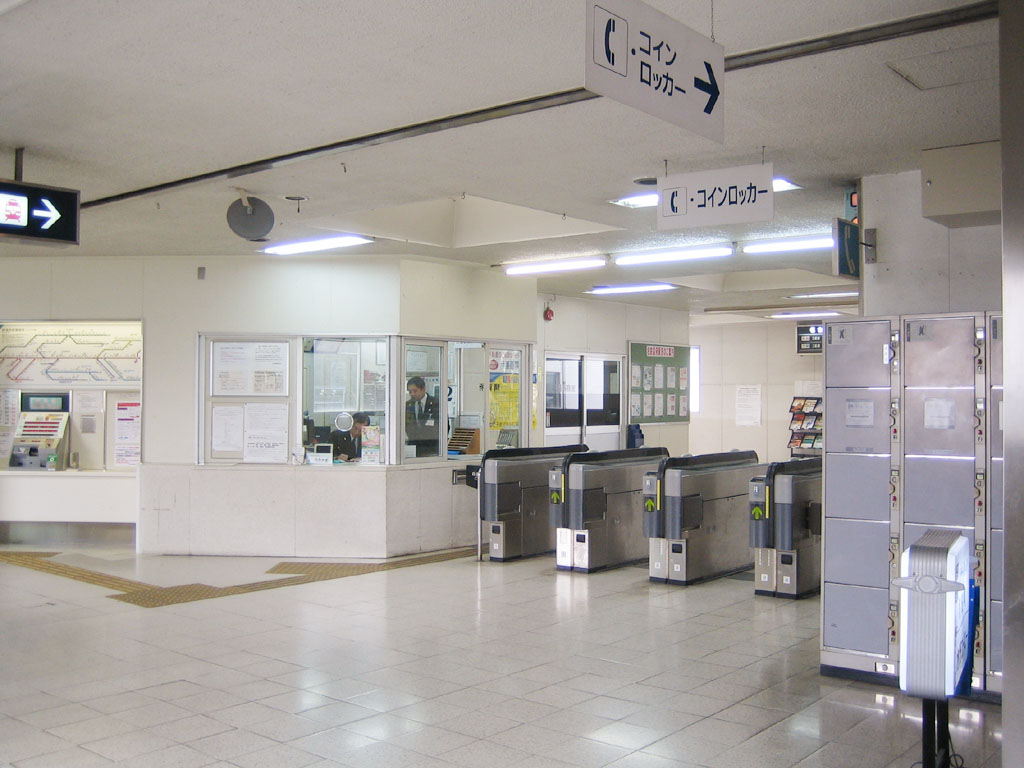 The ticket gate of Kō Station (国府駅), in Toyokawa, Aichi, Japan